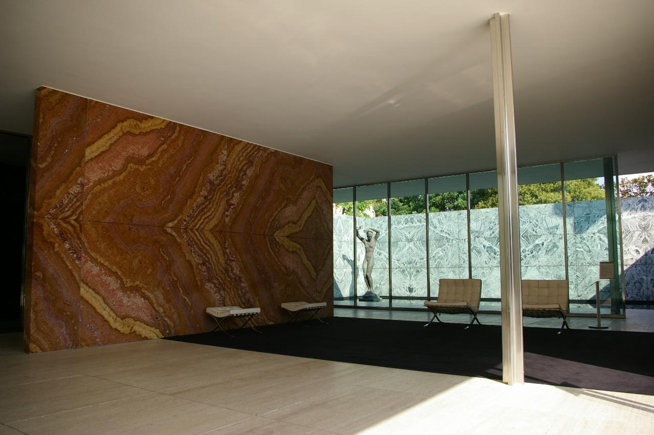 Overview of the interior of the Barcelona Pavillion by Mies van der Rohe, used on Ludwig Mies van der Rohe.